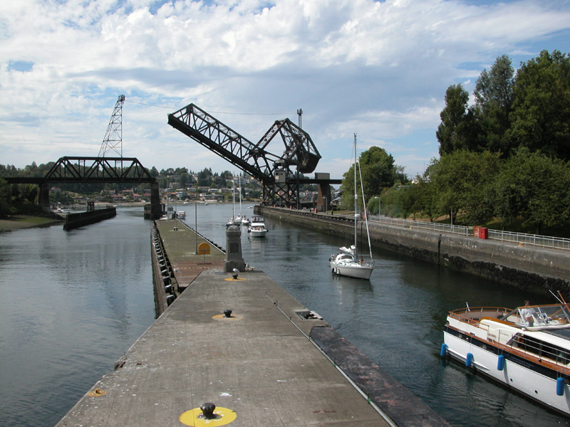 Salmon Bay Bridge, Seattle